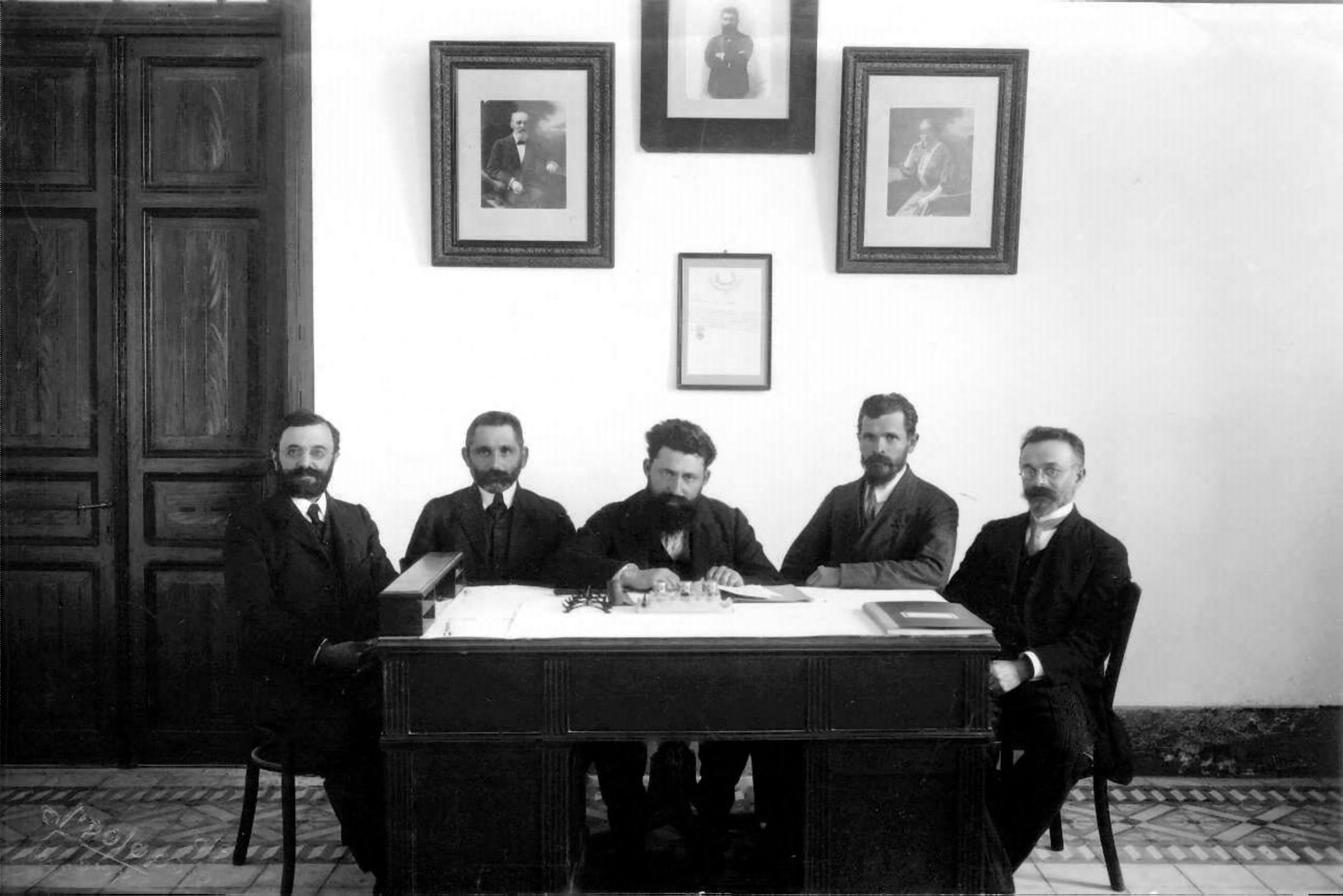 The administration of The Hebrew Gymnasium (HaGimnasia HaIvrit) in Tel Aviv, 1910. R-L: Chaim Chissin, Haim Bugrashov, Ben-Zion Mosinson, Menachem Sheinkin, Eliyahu Berligne